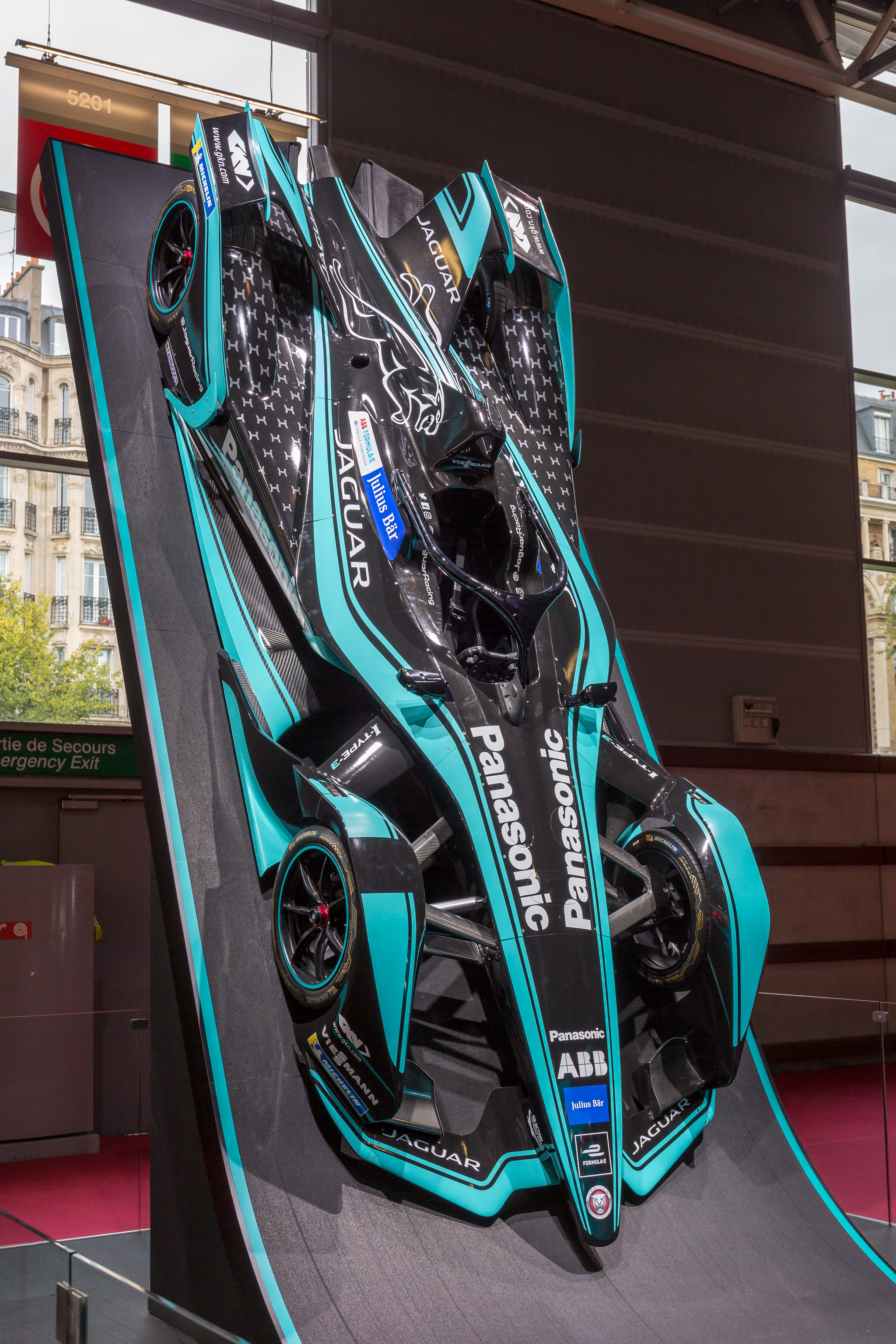 Paris Motor Show 2018